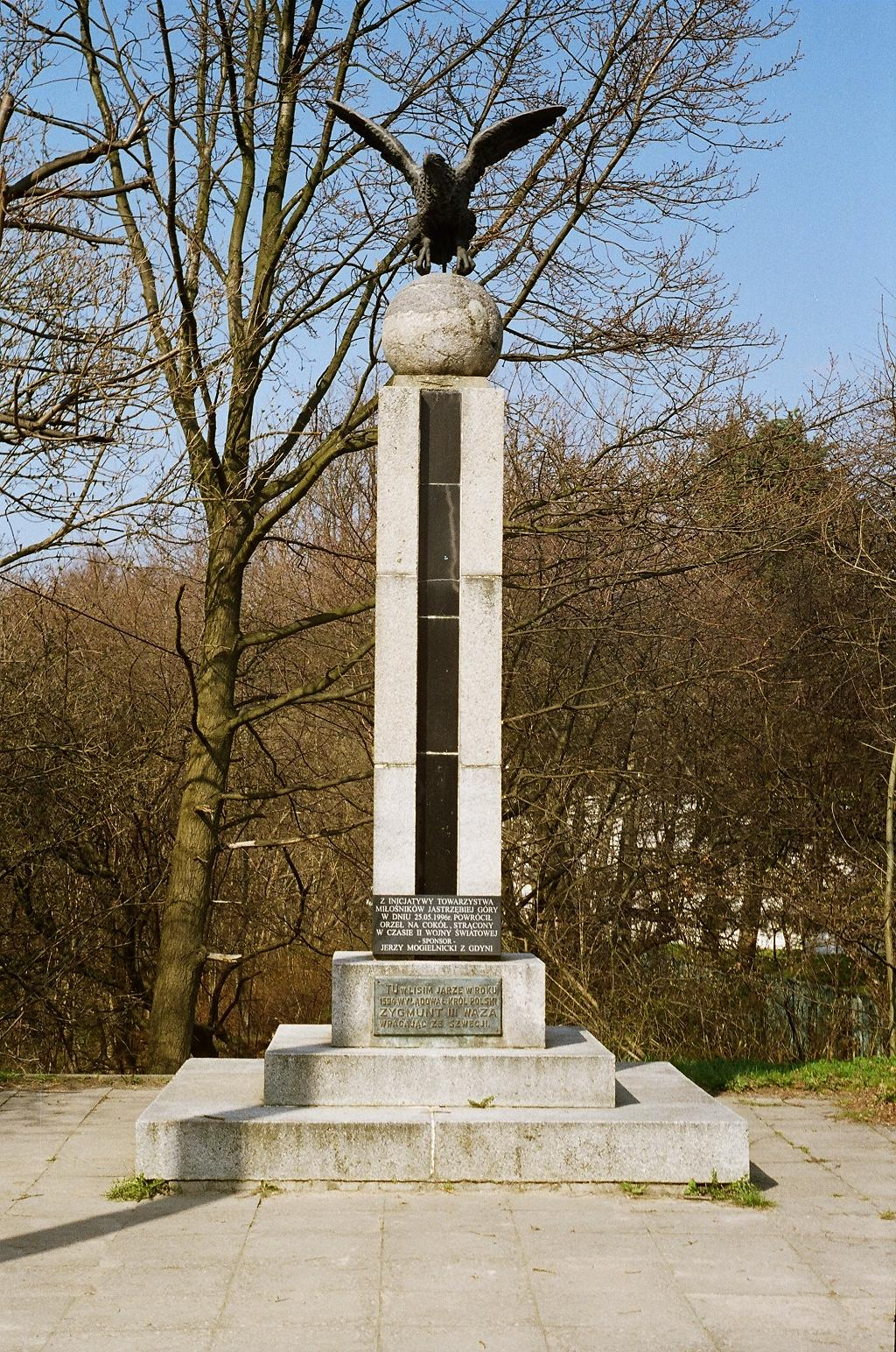 A monument standing in front of entrance to / exit from Lisi Jar